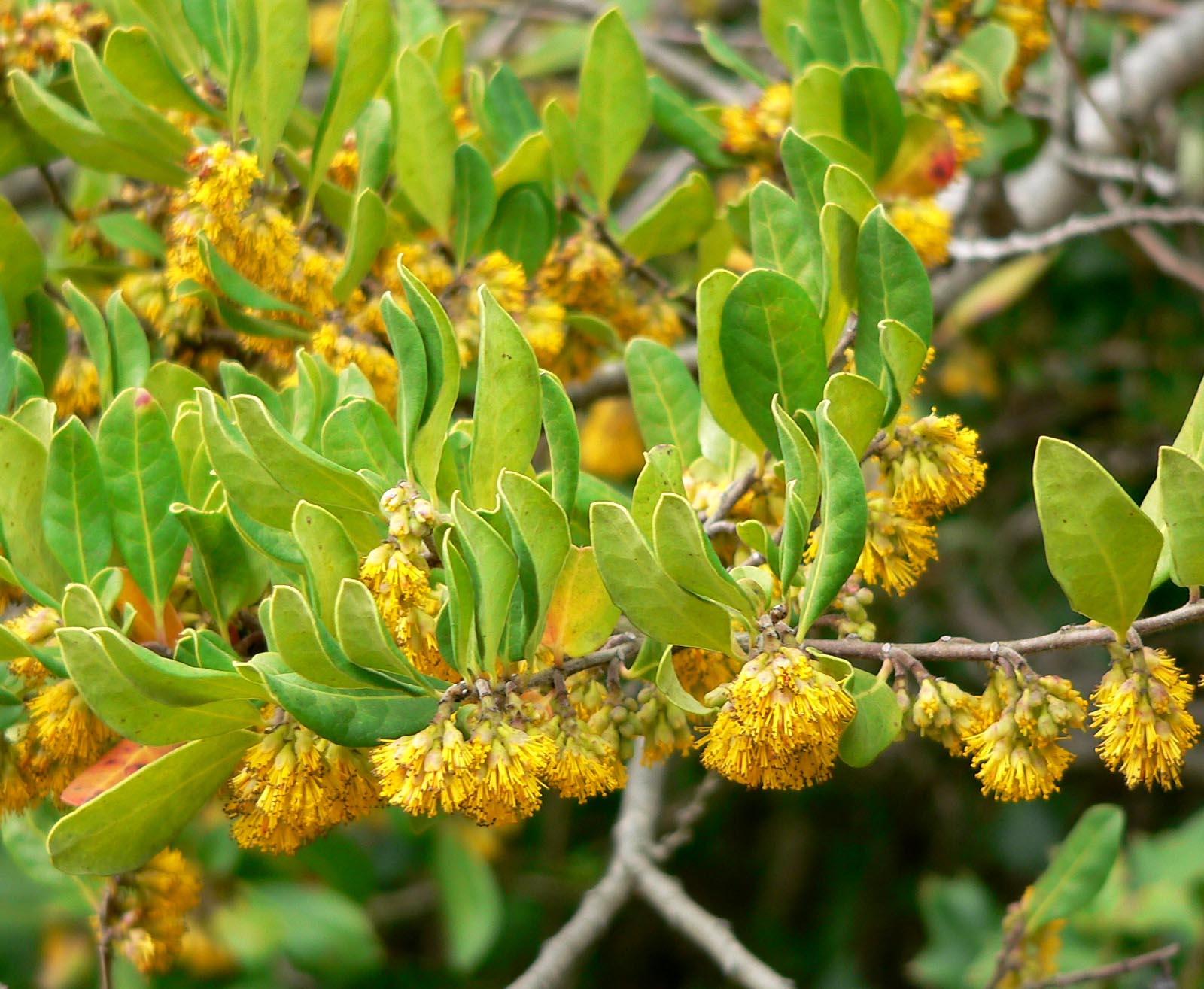 Photo of Azara petiolaris at the University of California Botanical Garden